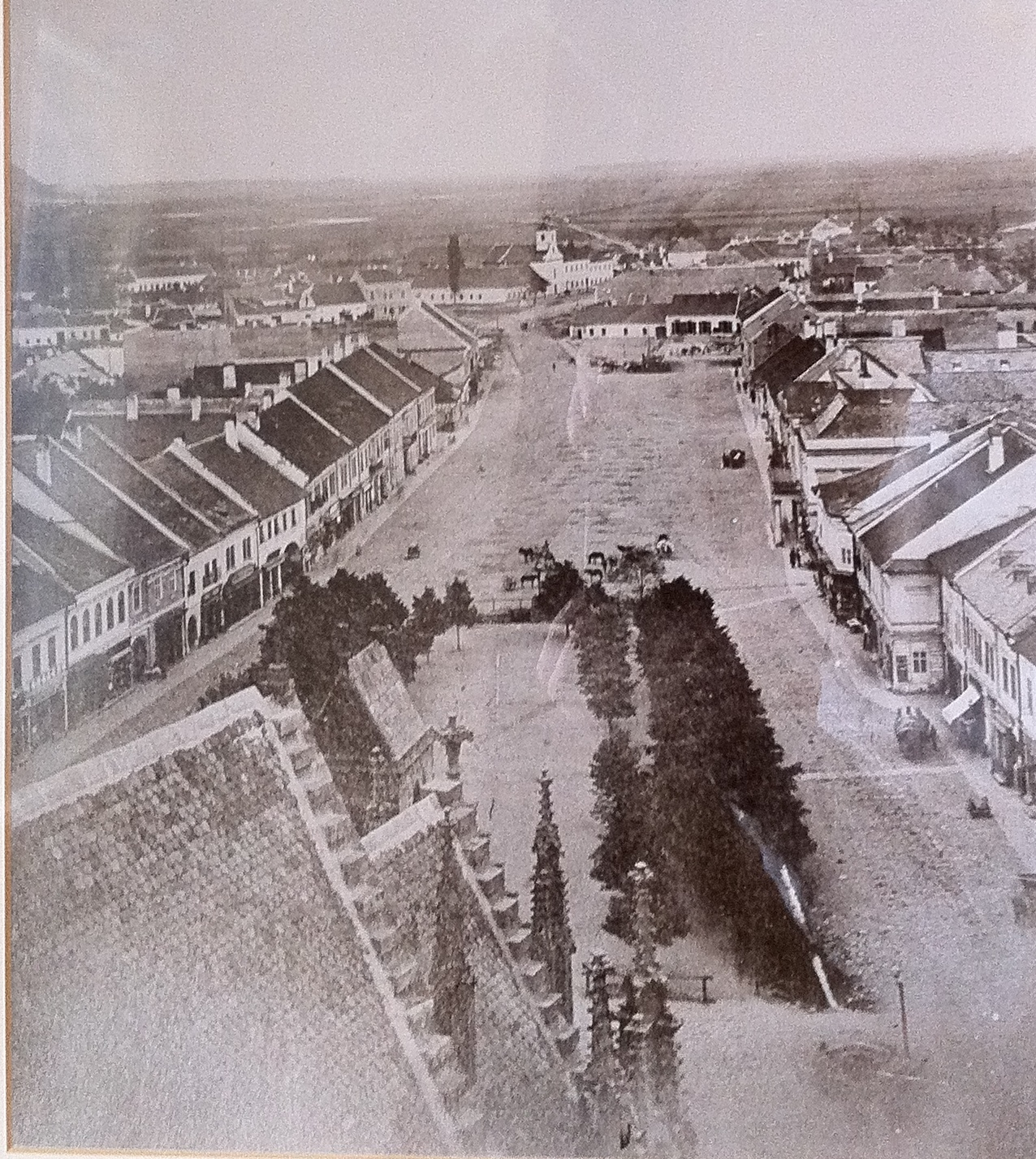 The building Zlaty Dukat in circa 1860